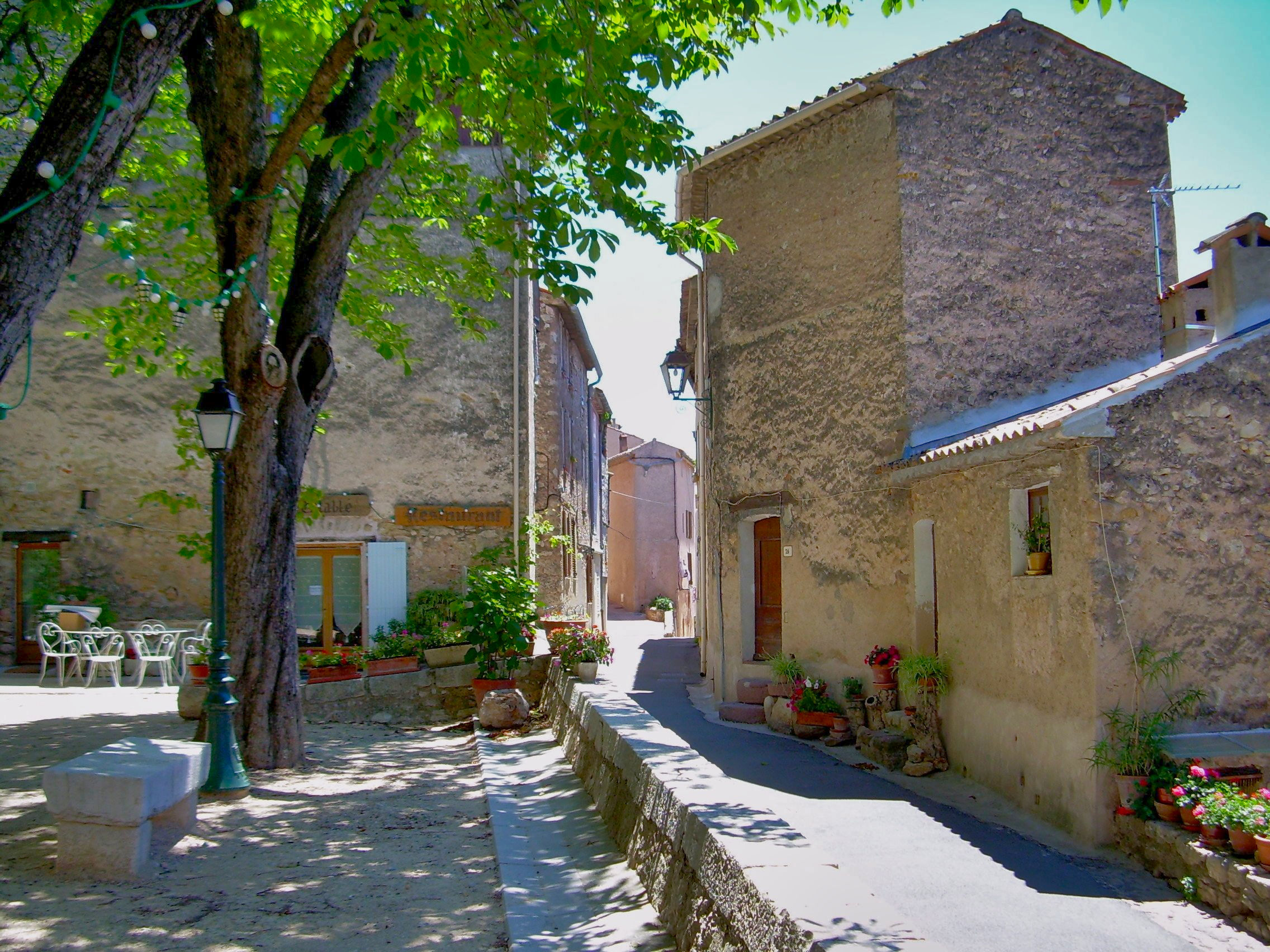 A street of Bagnols-en-Forêt, Var, France